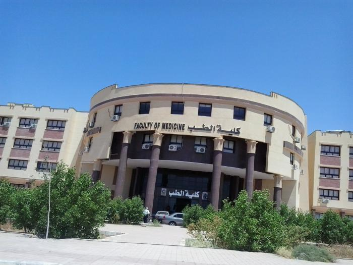 Faculty of medicine svu